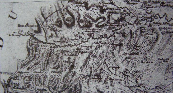 The map of Neuhaus am Klausenbach (Vasdobra) manor